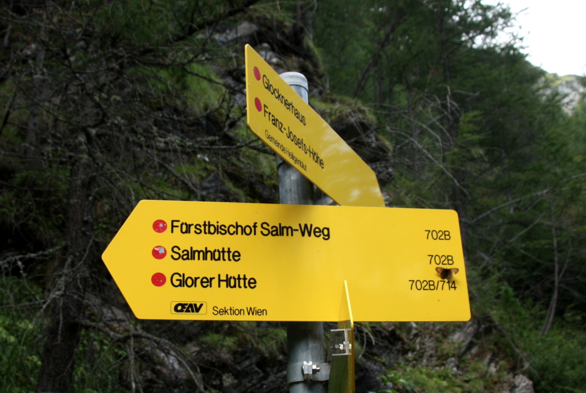 Salmhütte, signpost